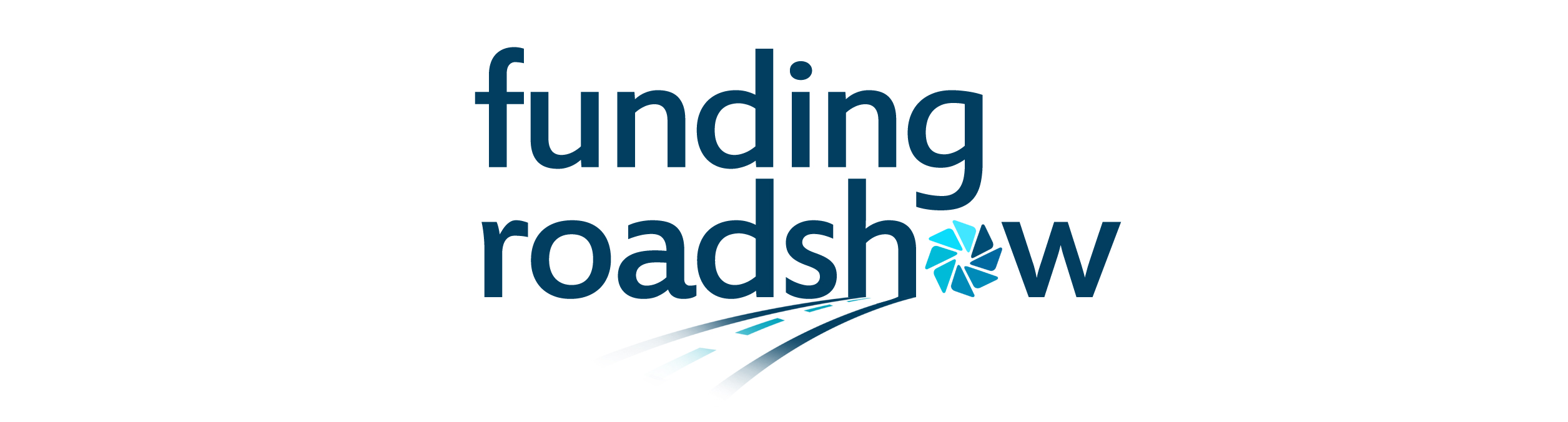 National event across Canada educating, inspiring and funding entrepreneurs.